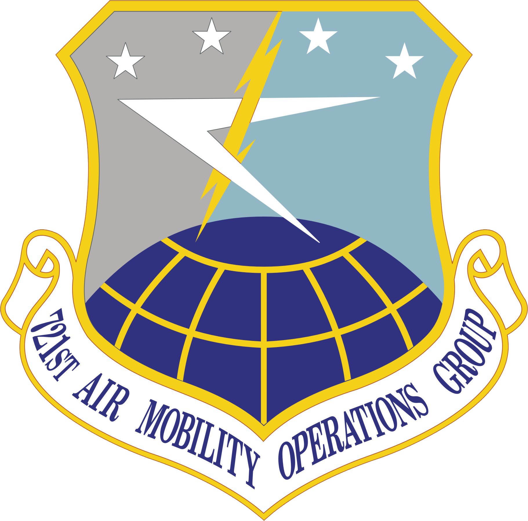 Emblem of the United States Air Force 721st Air Mobility Operations Group